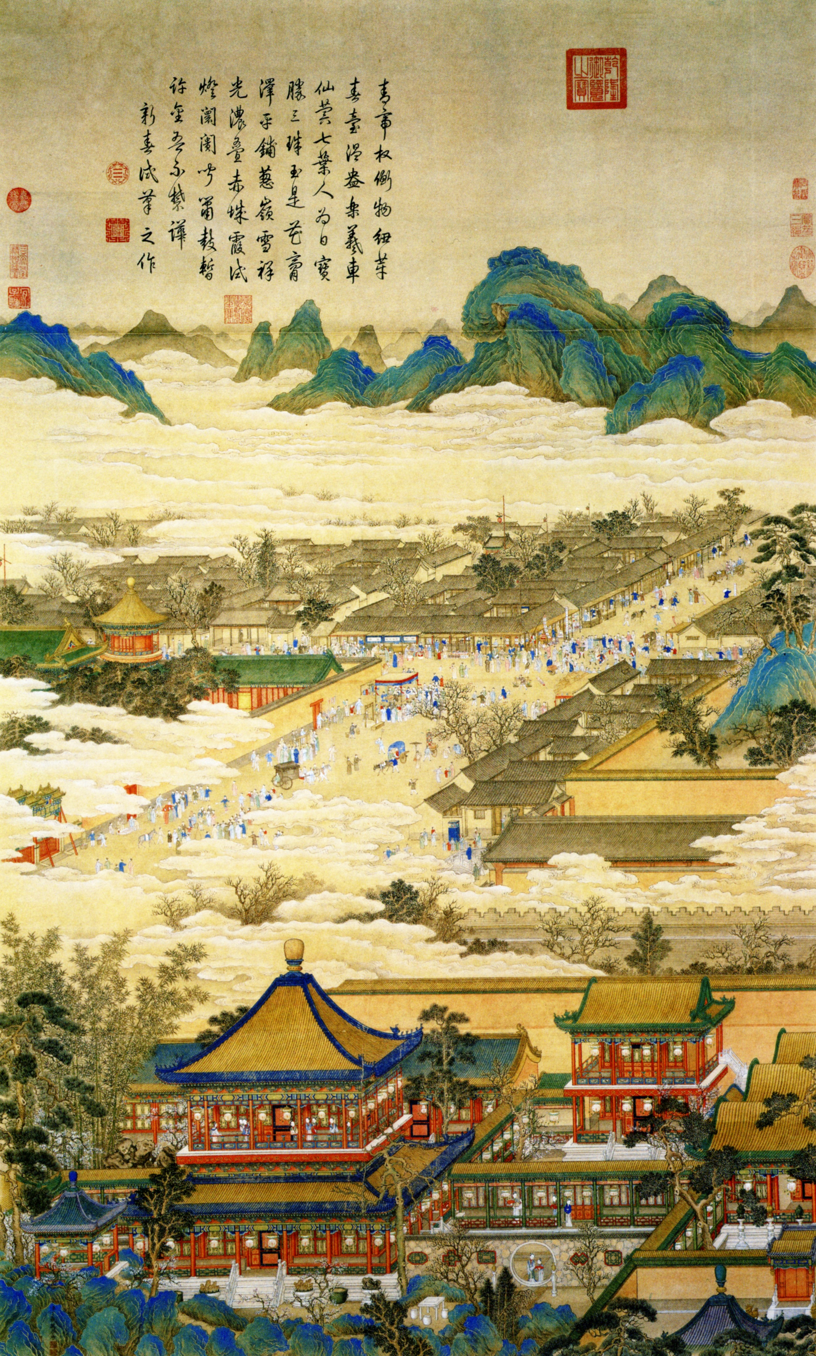 "Peaceful Start for the New Year" (畫太簇始和) Ink and color on paper. Width 108.4 cm, Height 179.3 cm. Located in National Palace Museum, Taipei.